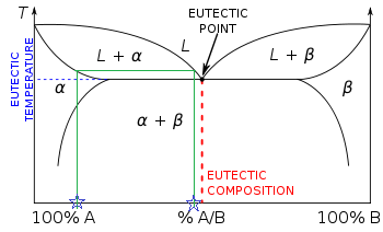 Typical Eutectic phase diagram with a tie line in the two phase region between alpha solid phase and liquid phase